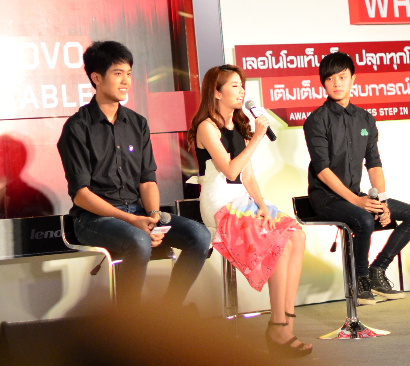 Sedthawut, Sananthachat, Gun